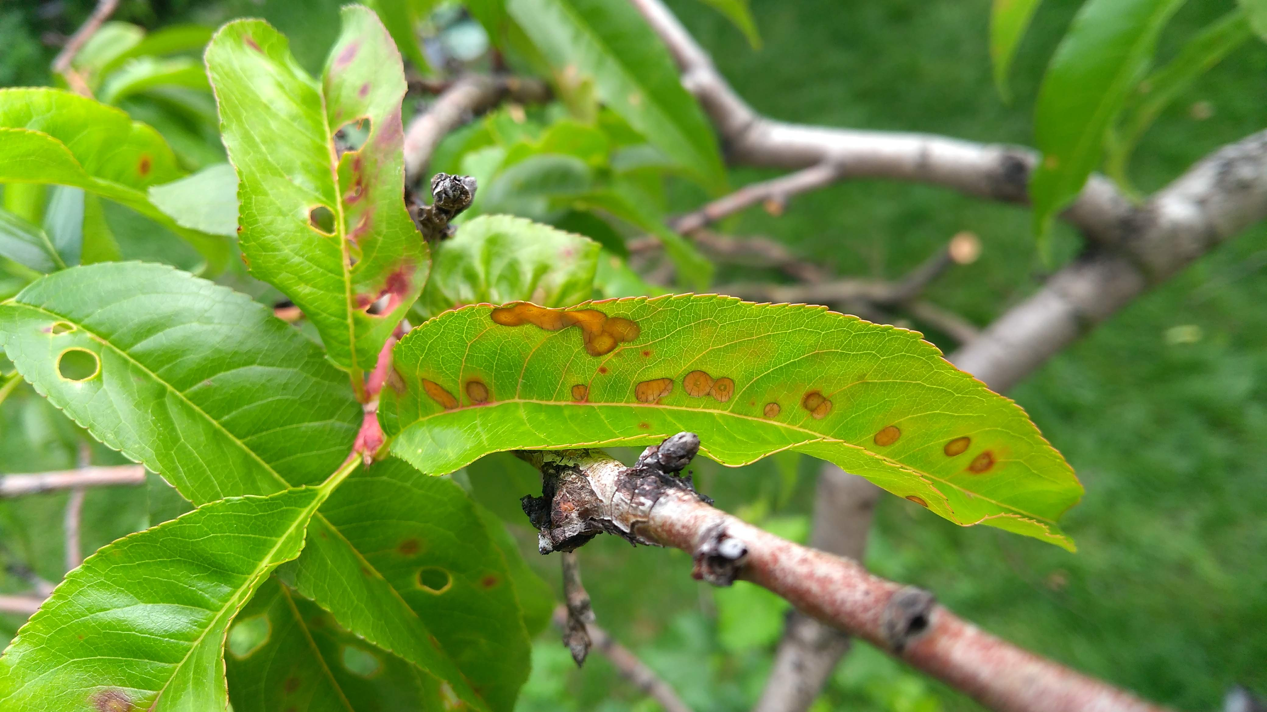 Peach (Prunus persica) leaves showing various stages of the shot hole disease: browning spots on the leaves (in the center) that fall off, leaving holes behind (on the left).